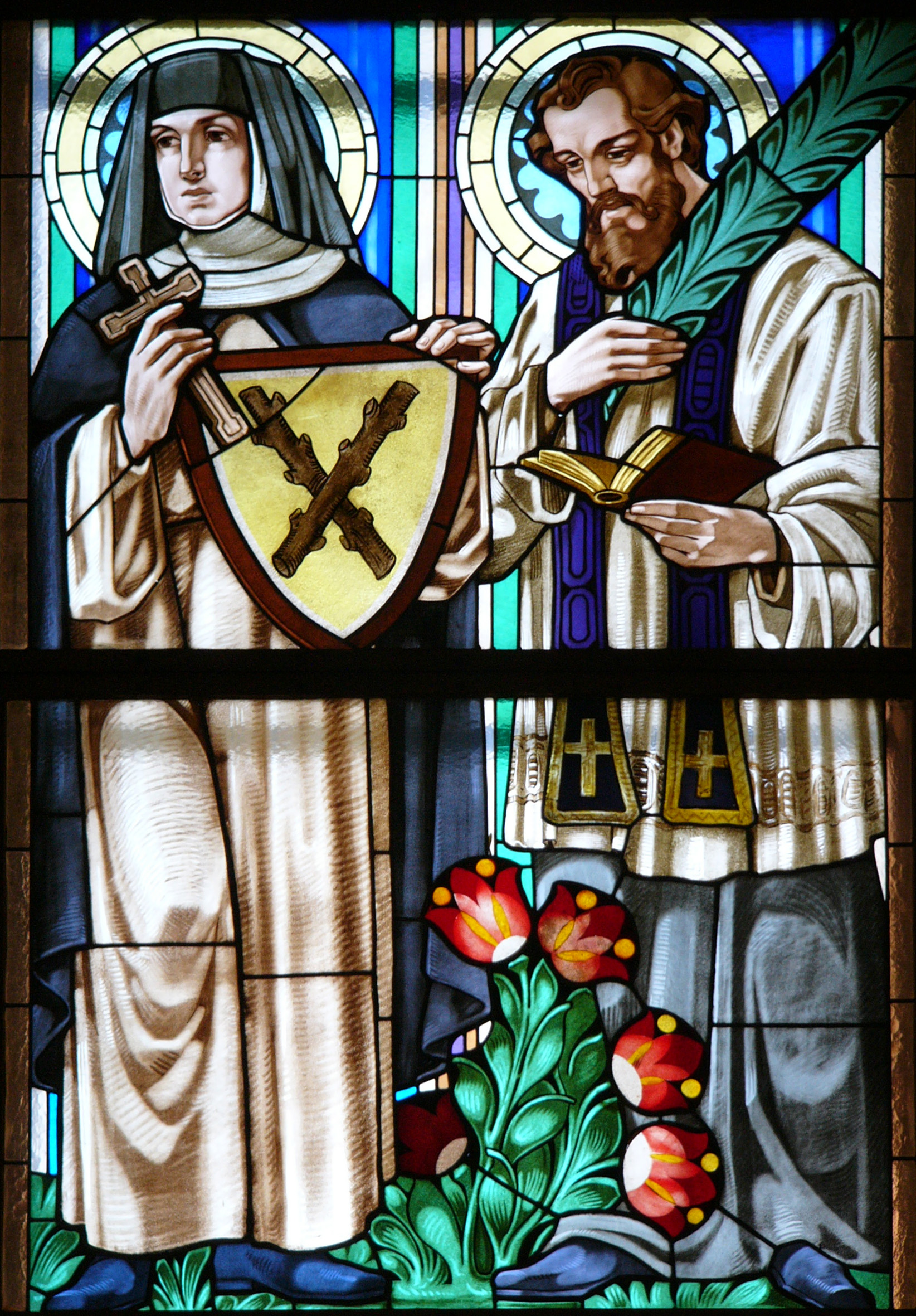 Zdislava of Lemberk (Saint Zdislava) and Saint John Sarkander in Sts. Cyril and Methodius's church in Olomouc (Czech Republic).